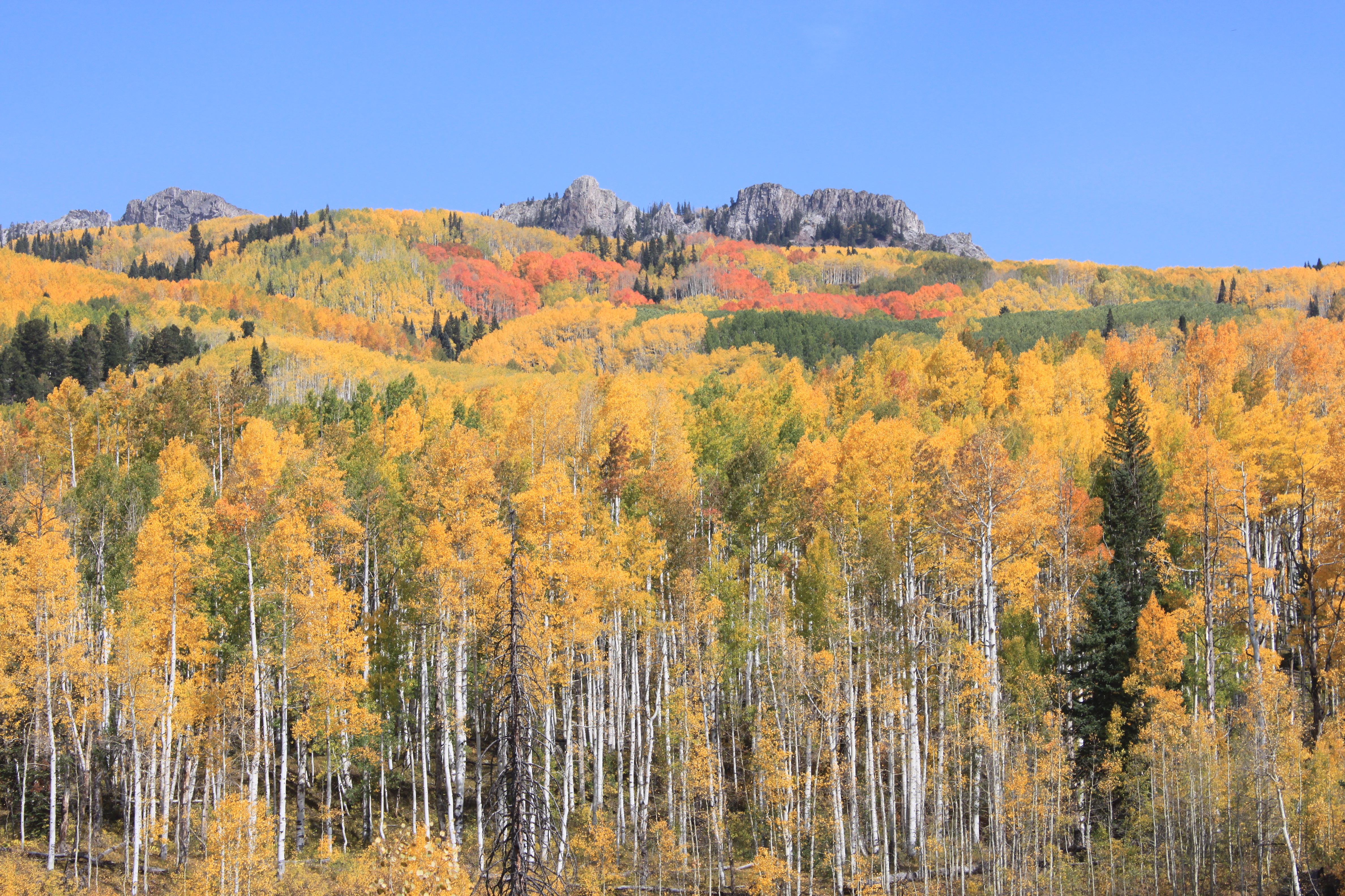 The riot of fall colors displayed by Aspen trees captured at Kebler Pass, Colorado USA in fall of 2012